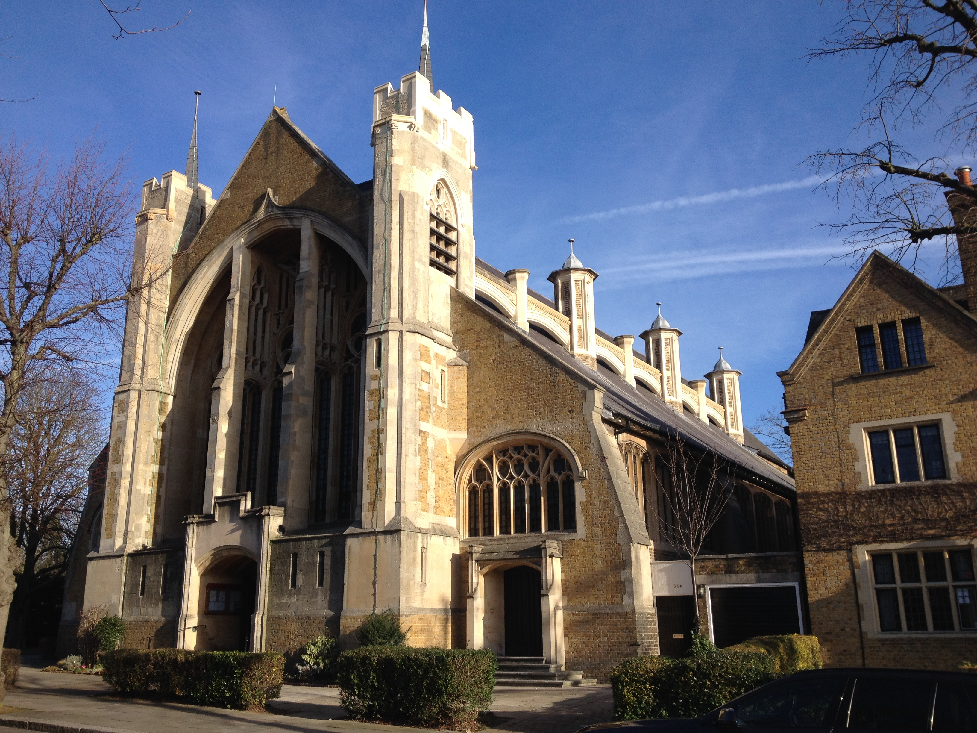 St Peter's Ealing, Exterior, West Front